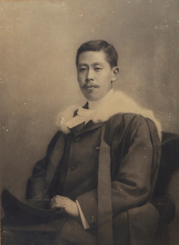 Nabeshima Naomitsu, by Takagi Haisui, Historical Museum Chokokan, Saga, Saga, Japan